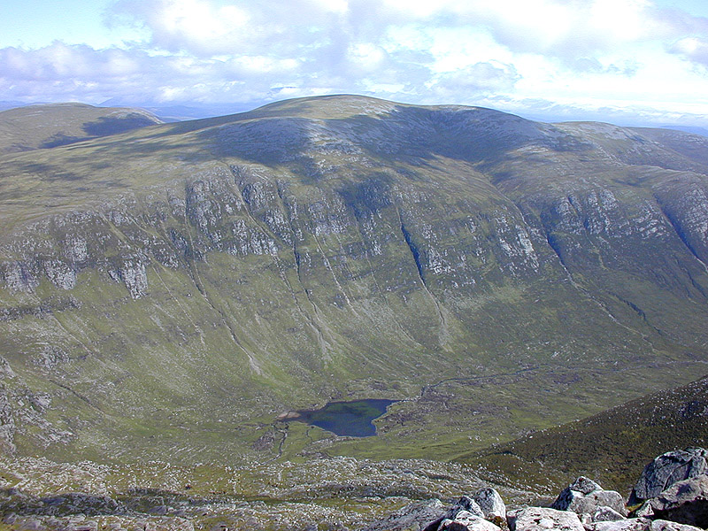 View south east from the summit of Cona' Mheall. The Allt Lair and Loch na Still lie in the glen below, with Am Faochagach beyond